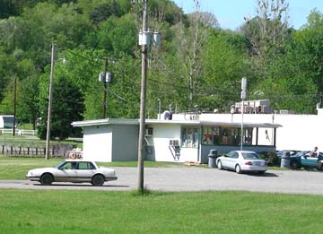 Richard Renner took this photo of the B & F Dairy Bar in Scio on 2006-05-20. It is a stop on the Conotton Creek Trail.